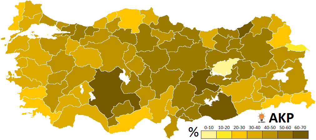 Results obtained by the AKP by province in the Turkish local elections of 2014.